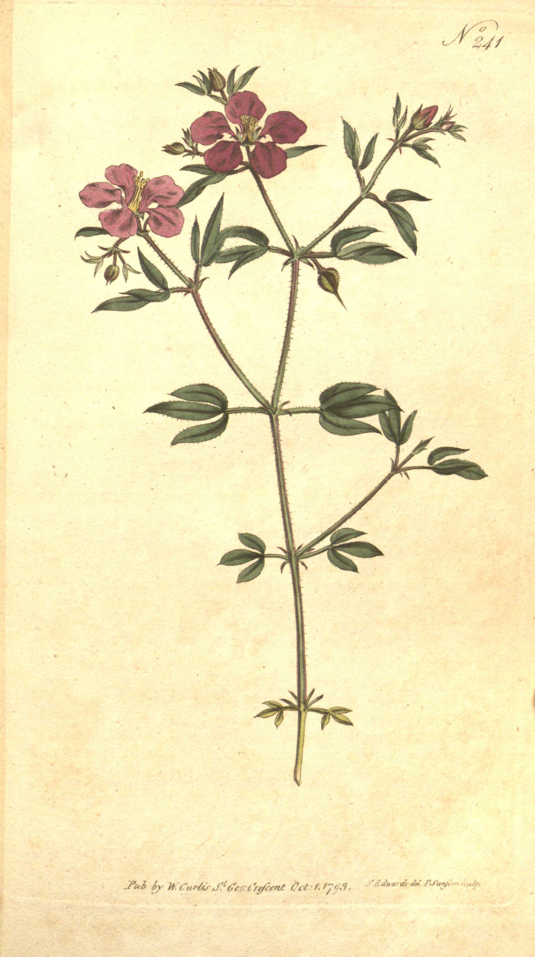 This is a plate from The Botanical Magazine, Volume 7.